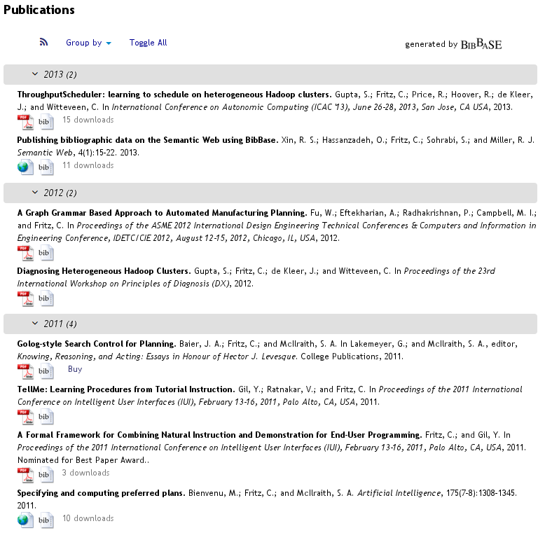 A screenshot of output from BibBase.